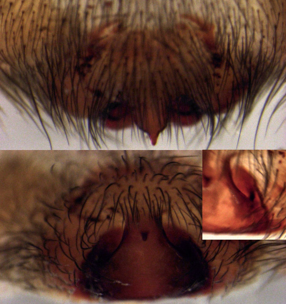 Cambridgea decorata? (female), epigynum (upper: oblique anterior view; lower: oblique posterior view, inset with internal genitalia removed). Compares very well with fig. 46 in: Blest, A.D.; Vink, C.J. 2000: New Zealand spiders: Stiphidiidae. Records of the Canterbury Museum, 13(supplement), but the holotype of C. decorata is an unassociated male, and my females are associated with males with a differently shaped TA, much more like that figured (fig. 47) for C. mercurialis